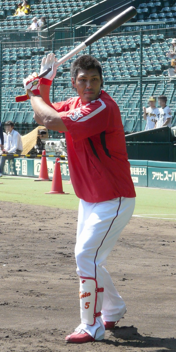 Kenta Kurihara, infielder of the Hiroshima Toyo Carp, at Hanshin Koshien Stadium